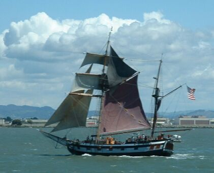 Ketch in Oakland Inner Harbor, San Francisco Bay